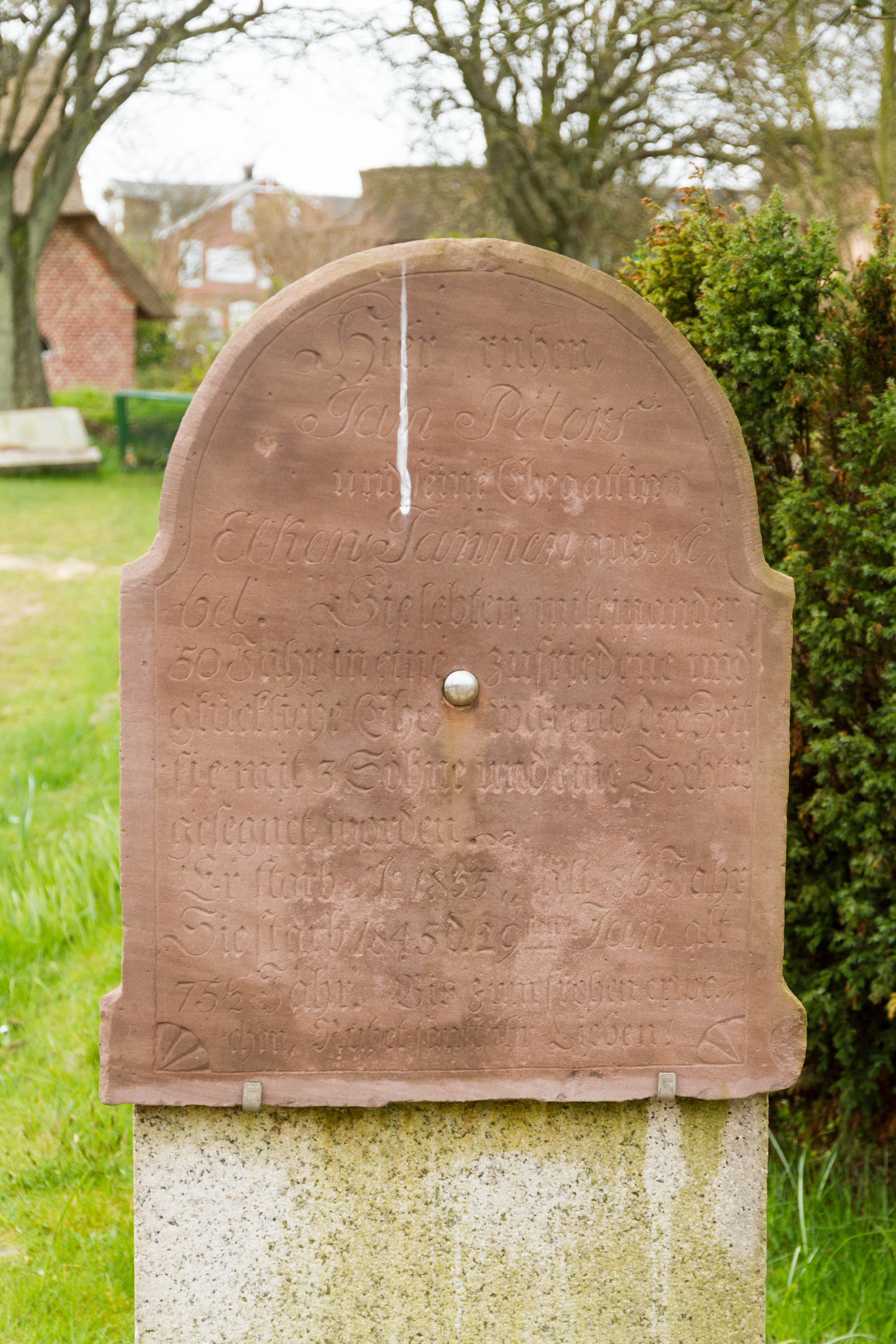 The making of this document was supported by the Community-Budget of Wikimedia Germany. Grabstein des Amrumer Steinmetzes Jan Peters. Er hat etwa 36 von den heute noch erhaltenen Grabsteinen hergestellt.